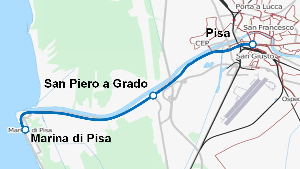 Pisa-Marina di Pisa tramway map